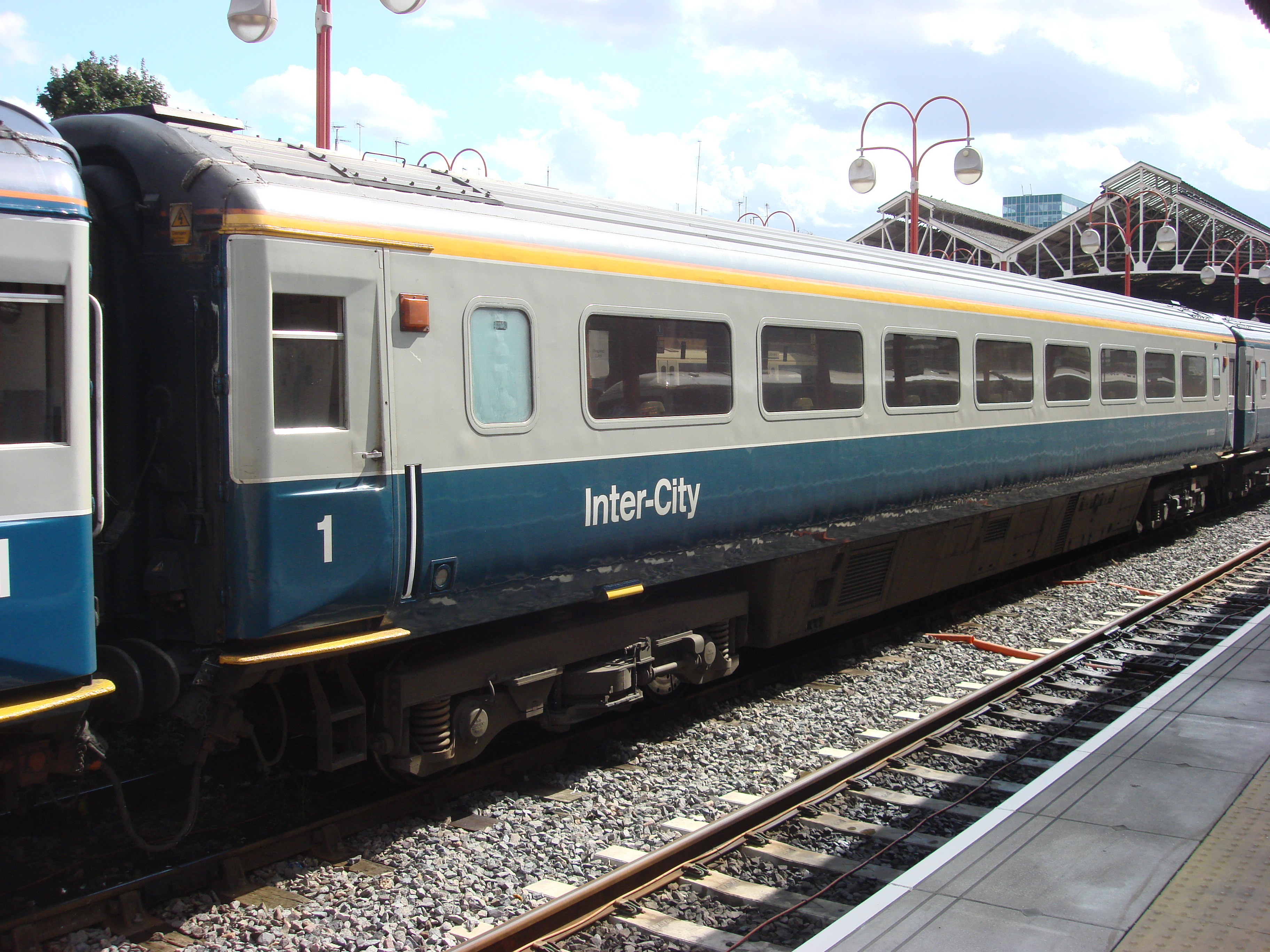 British Rail Mark 3 FO number M 11083 at Marylebone